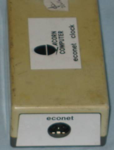 AEH14 Type1 clock (left). This was Acorn's first stand alone clock, previous clocks had been built into the Econet Interfaces. As you can see from the pictures, it has a single Econet socket on one side and the 8V DC power in on the other. The picture of the circuit board shows the row of links which are used to set the cloks timing.